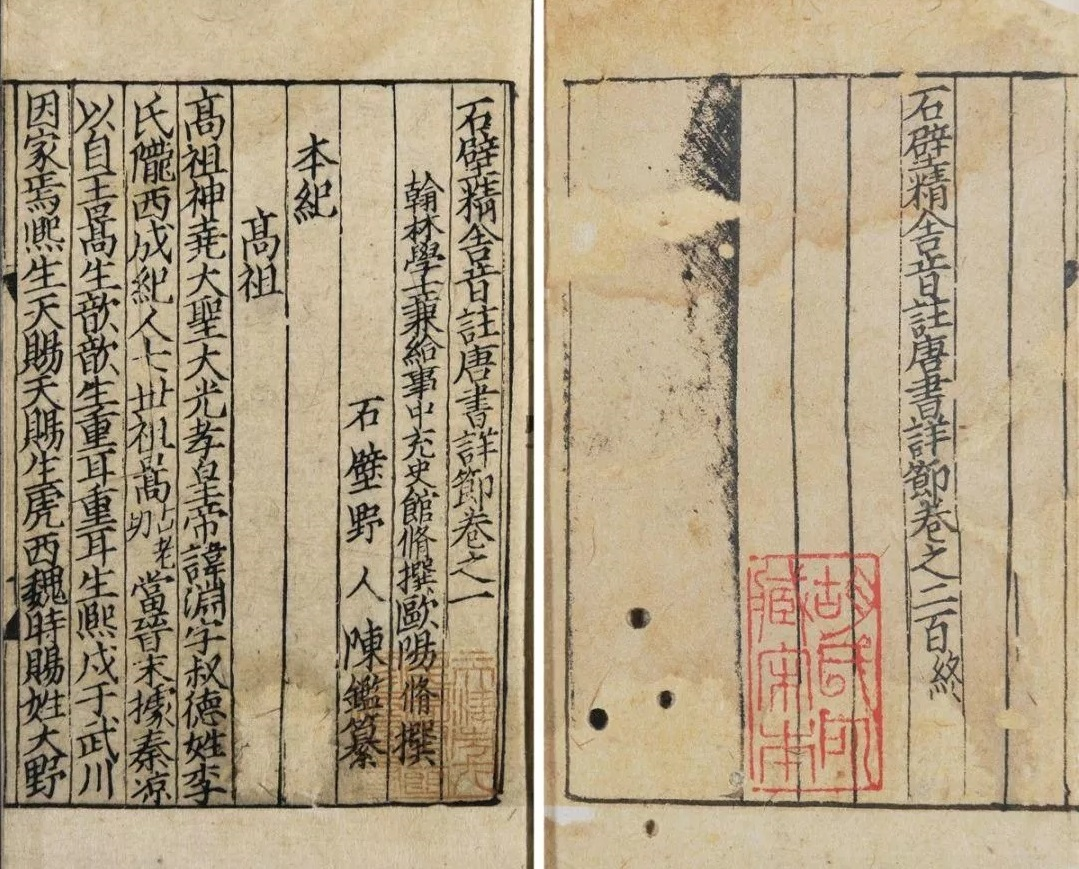 Composite image showing the first half folio of juan 1 (left) and last half folio of juan 200 (right) of the Southern Song edition of the Book of Tang annotated by Chen Jian (fl. 1234) that was sold at auction in Beijing for a record price (CNY 110,400,000) on 20 June 2018. 160 out of 200 volumes survive. Originally owned by Hu Ruoyu 胡若愚 (1895–1962) who gave it to Cao Kun 曹錕 (1862–1938). Seal on juan 1 ("胡氏所藏宋本" = "Song edition in the collection of Mr Hu") is that of Hu Ruoyu. 中文（中国大陆）: 宋刻本《石壁精舍音注唐书详节》卷一及卷二百。（宋）欧阳修撰，（宋）陈鉴纂。框高9.4厘米，宽6.2厘米，开本11厘米。巾箱小册，每半叶九行，行十八字，细黑口，四周双边或左右双边。有耳题。现存一百六十卷。原为奉系要员胡若愚旧藏，后送予直系军阀头目曹锟。